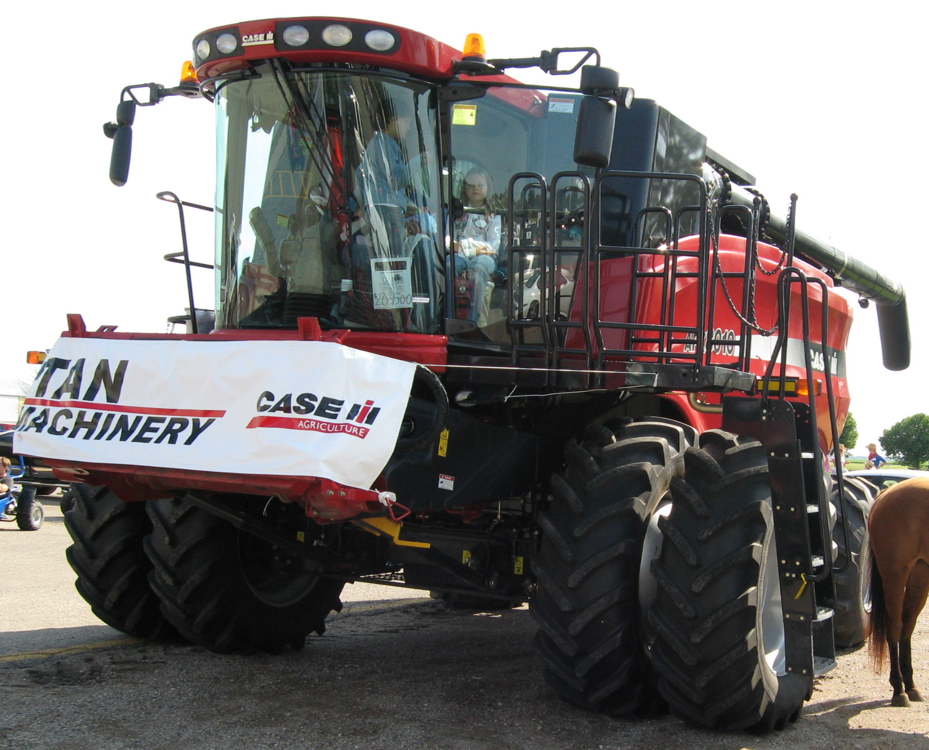 Case IH AFX8010 combine harvester at Kindred Daze Parade, Kindred, North Dakota, USA, August 1, 2009